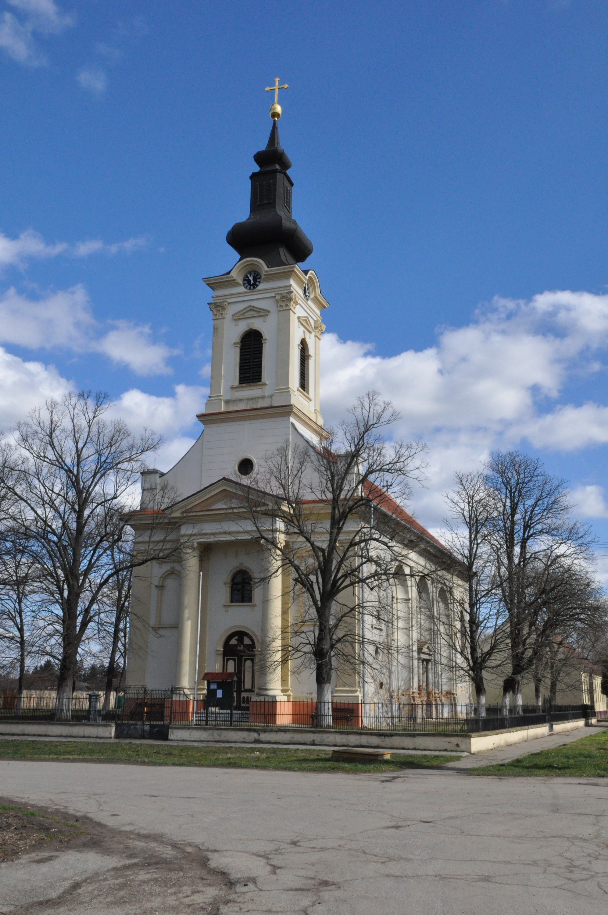 Serbian Orthodox church of Saint Nicholas in Radojevo